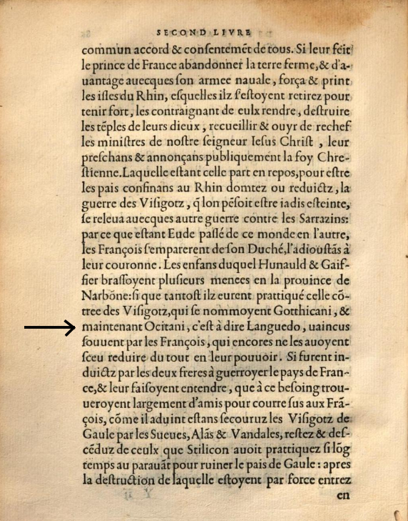 Paulo Emili's History of France book with the word Ocitani (1556). See references in Oc Wikipedia Paulo Emili article.